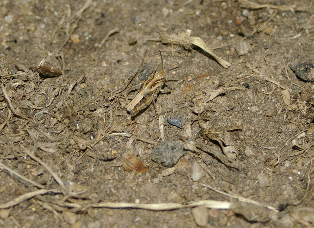 Chortoicetes terminifera (Australian plague locust) fourth stage nymph. Based on How to determine which growth stage a locust nymph is in by Department of Agriculture, Fisheries and Forestry.